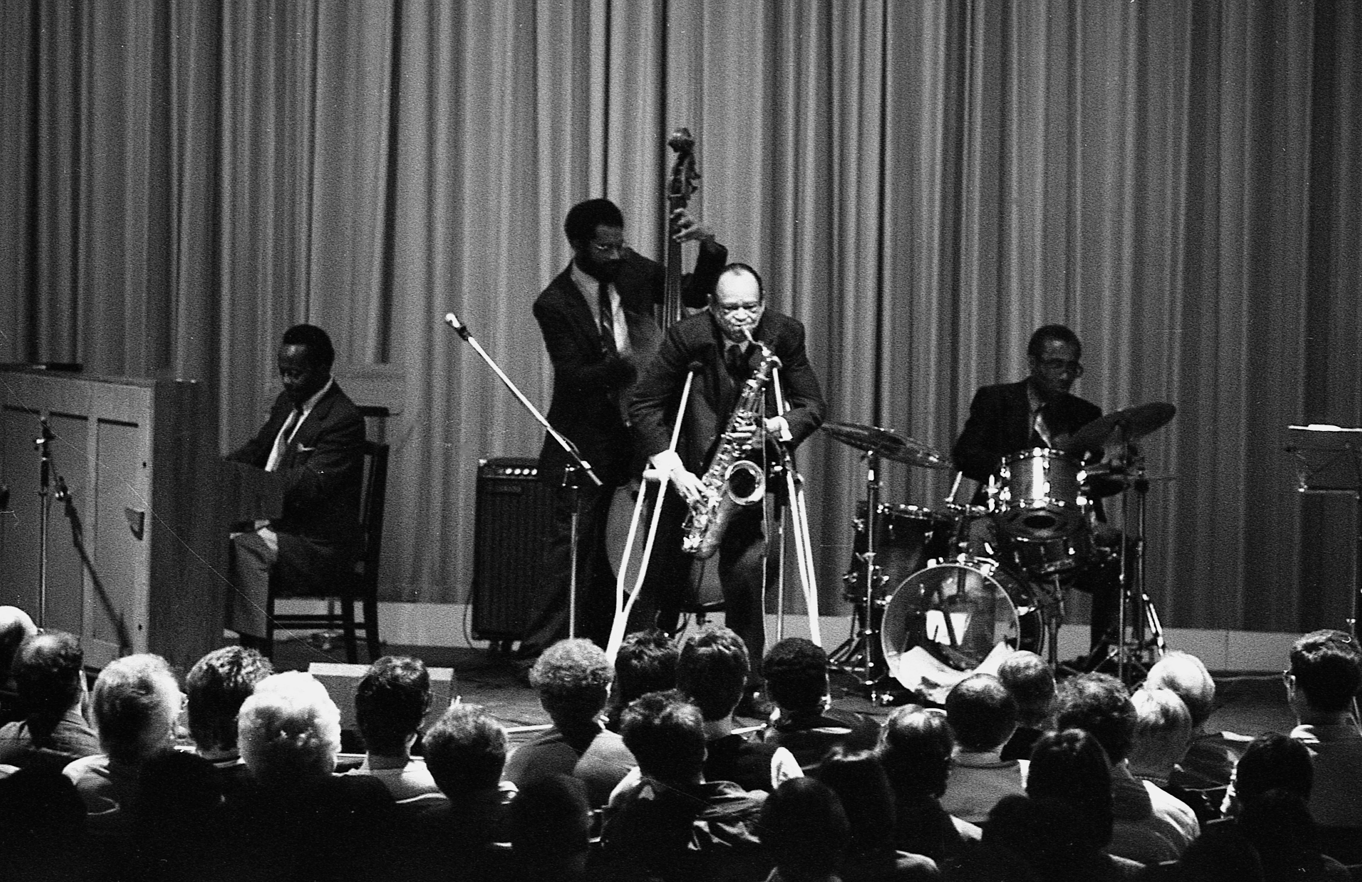 Arnett Cobb and Band in Concert at Filmforum, Duisburg, Germany, ca. 1987